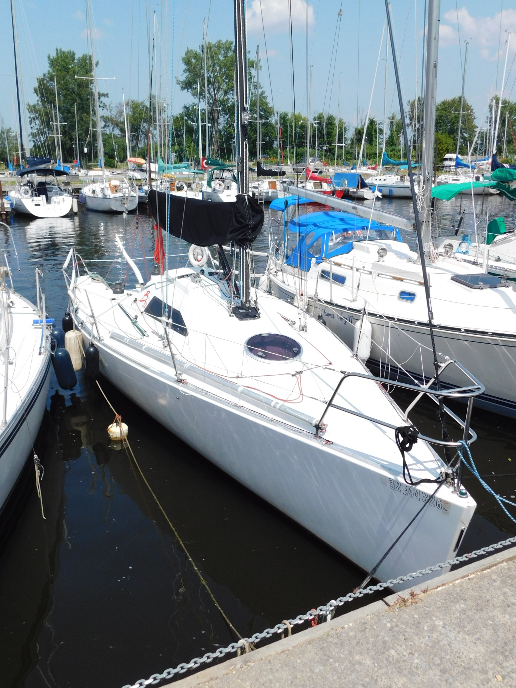 A B-Boats B32 sailboat named Busted Flush.